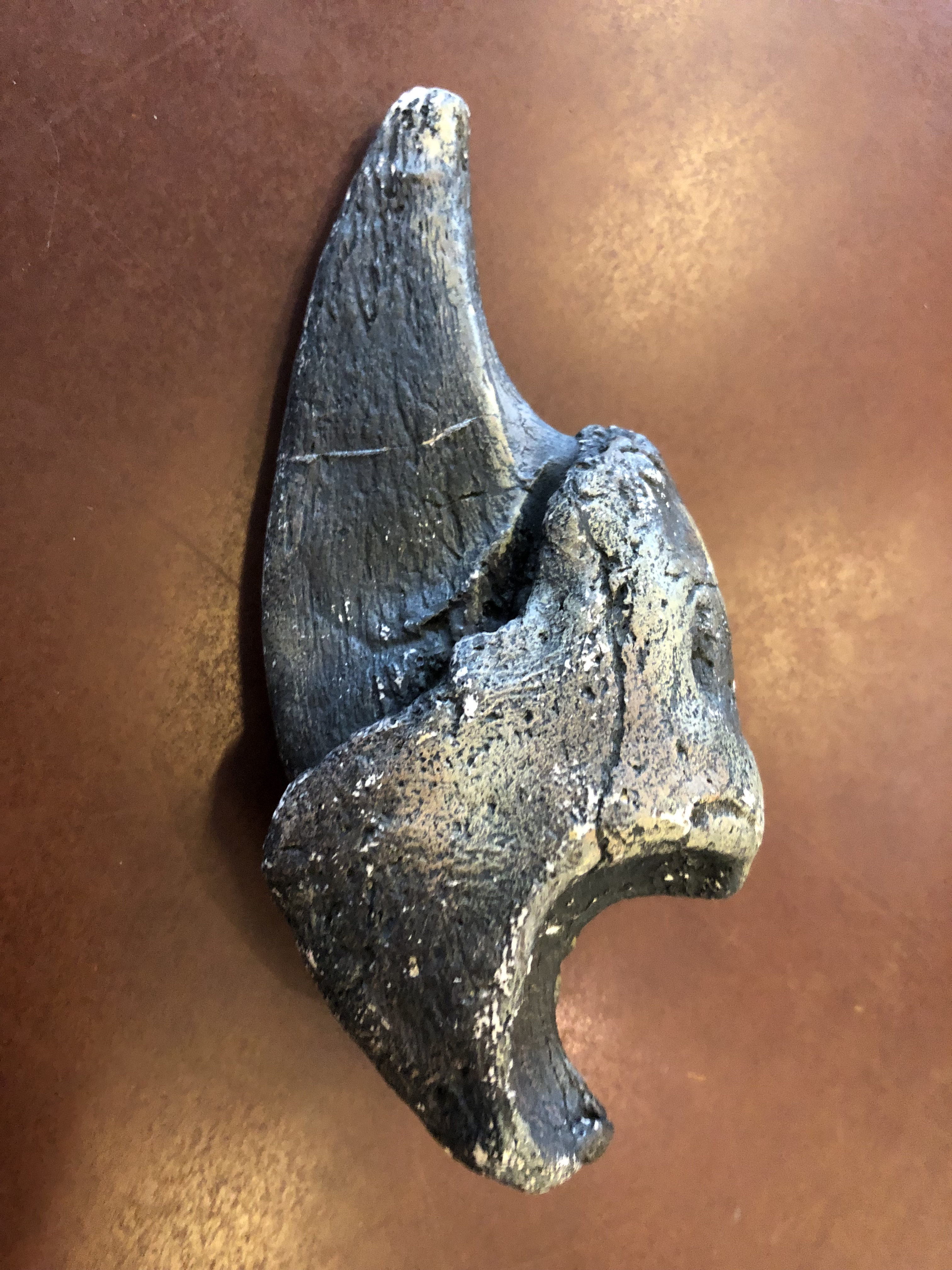 Megatherium claw [WHERE WAS THE PHOTO TAKEN?? Please confirm if it was at the Smithsonian.]